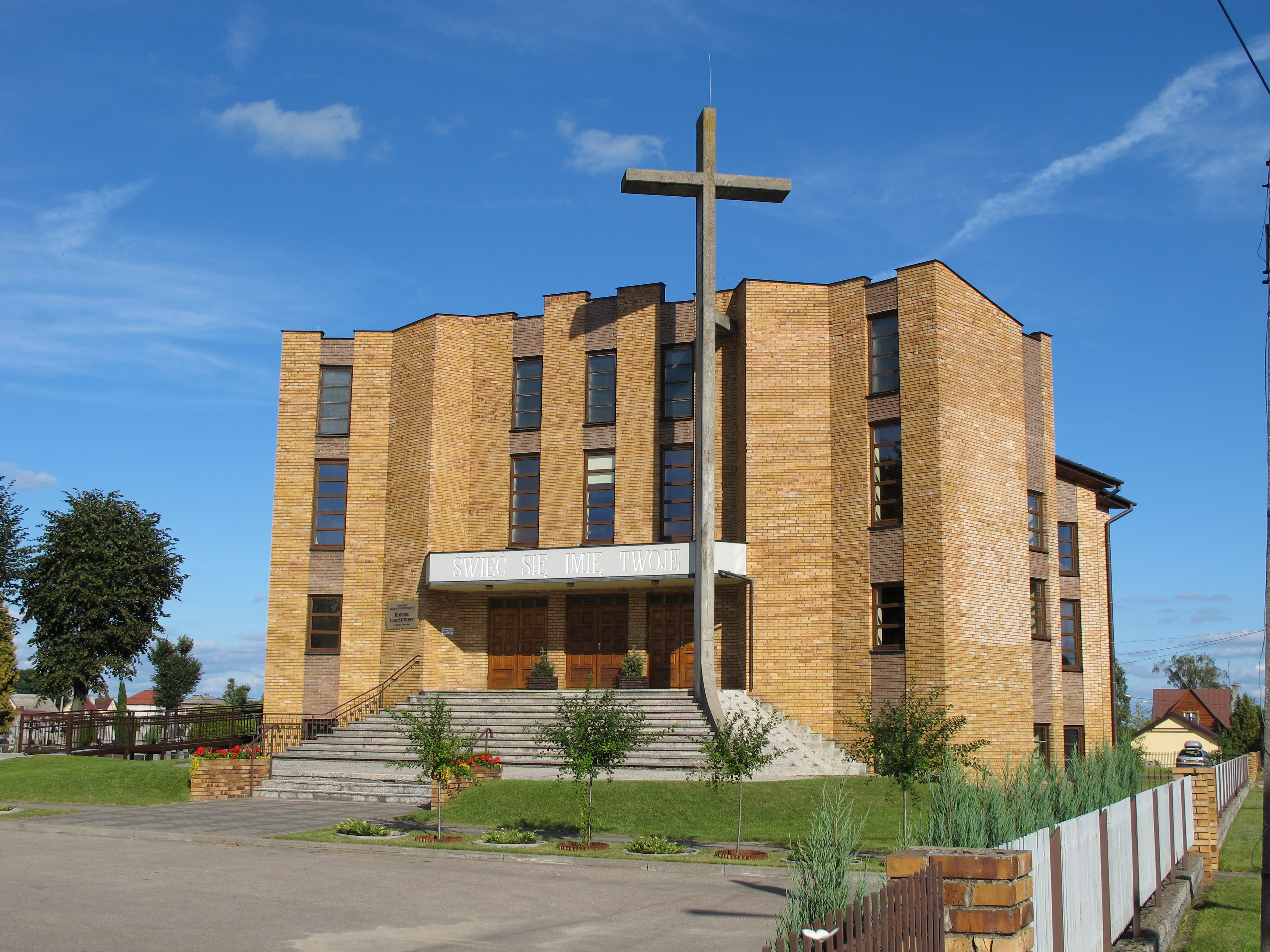 The Christian Church (Disciples of Christ) by Prusa 2 street in Bielsk Podlaski, Poland